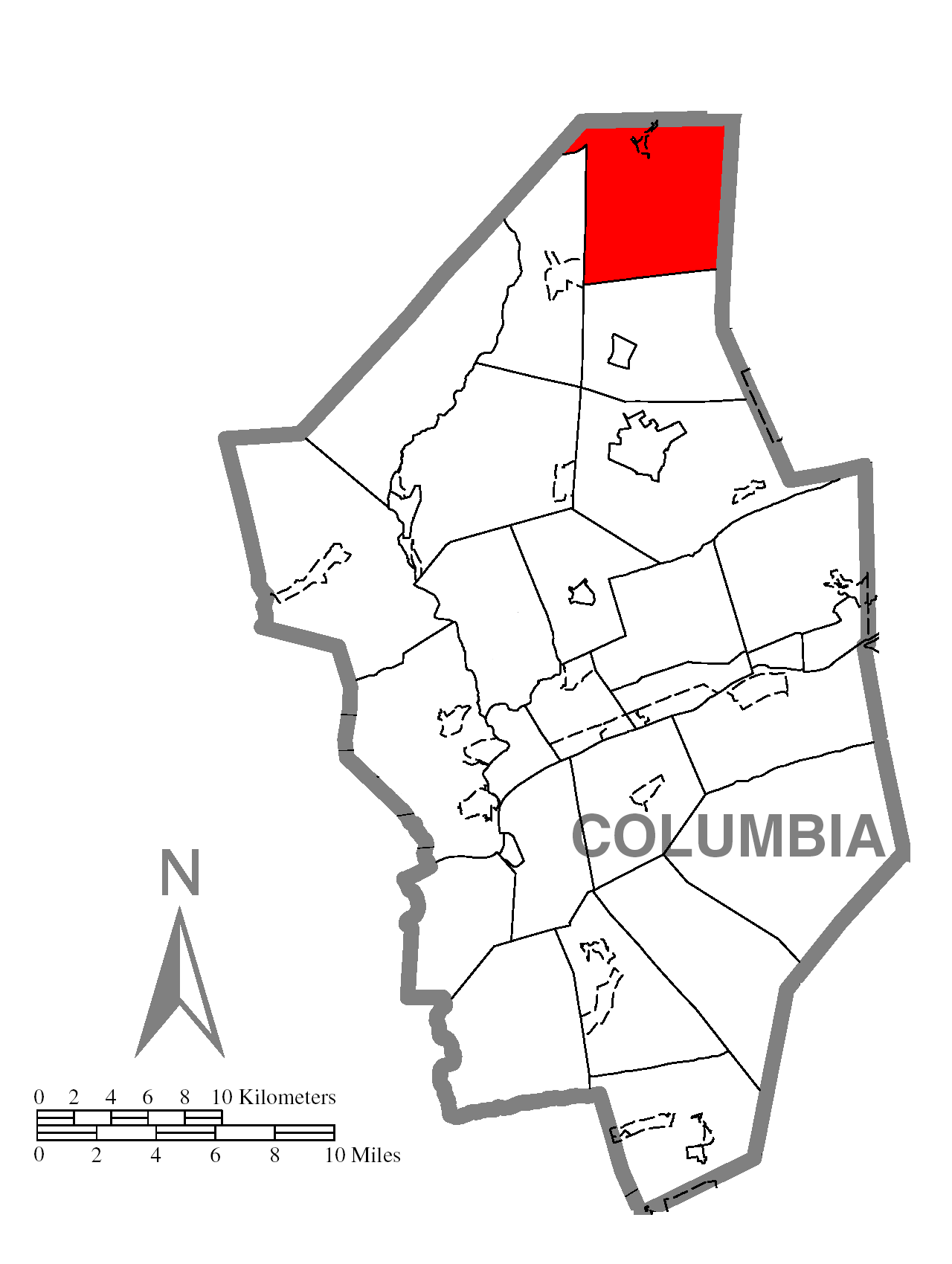 A map of Columbia County showing Sugarloaf Township, Pennsylvania (alternate) highlighted on the map.